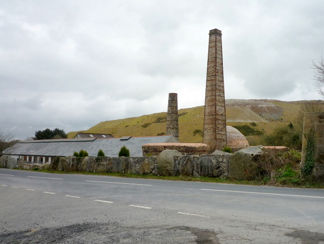 Old china clay works at Carbis Background are the spoil heaps of the Goonbarrow China Clay Works. Viewed from the road between Bugle and Roche.